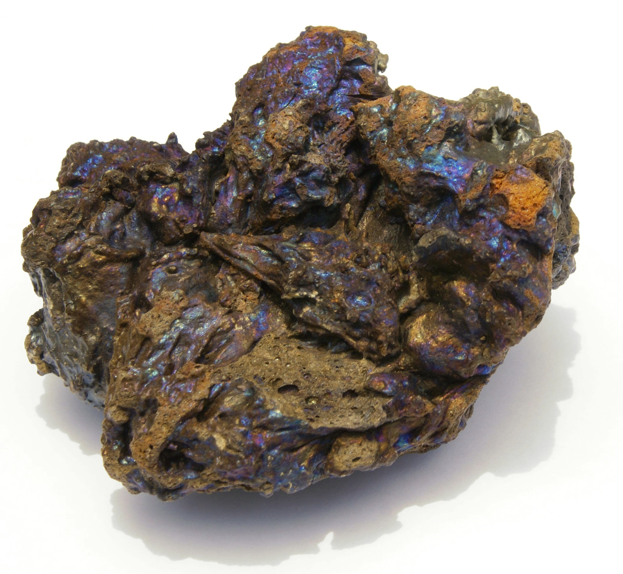 Basaltic scoria (about 8 cm large) coming from Amsterdam island ; blue iridescent color could be caused by interferences phenomenon in a thin and smooth layer of hematit (Fe2O3)